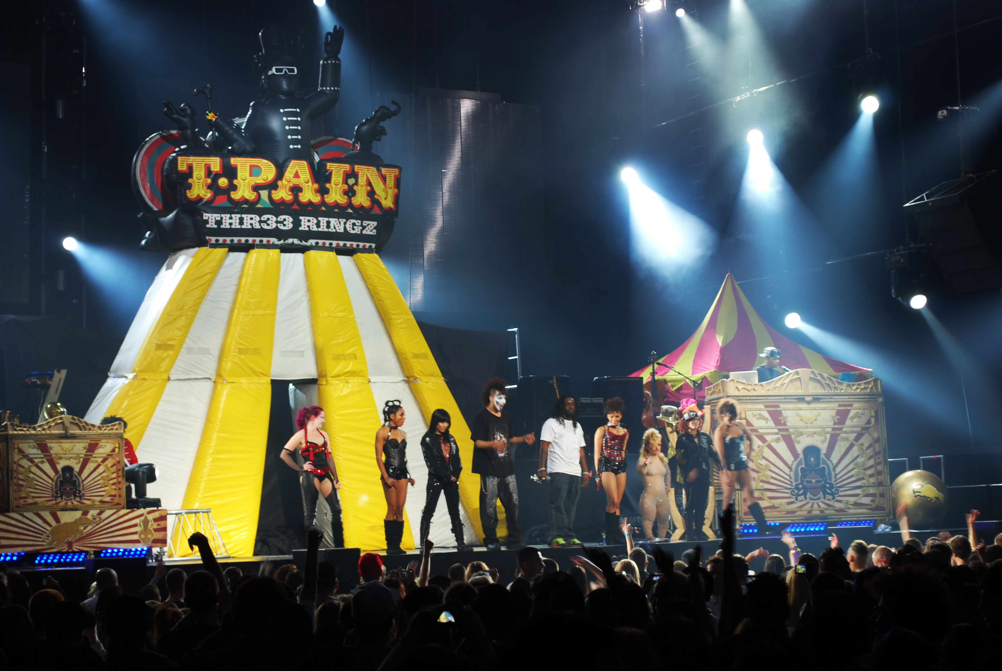 T-Pain's crew at General Motors Place concert in Vancouver.